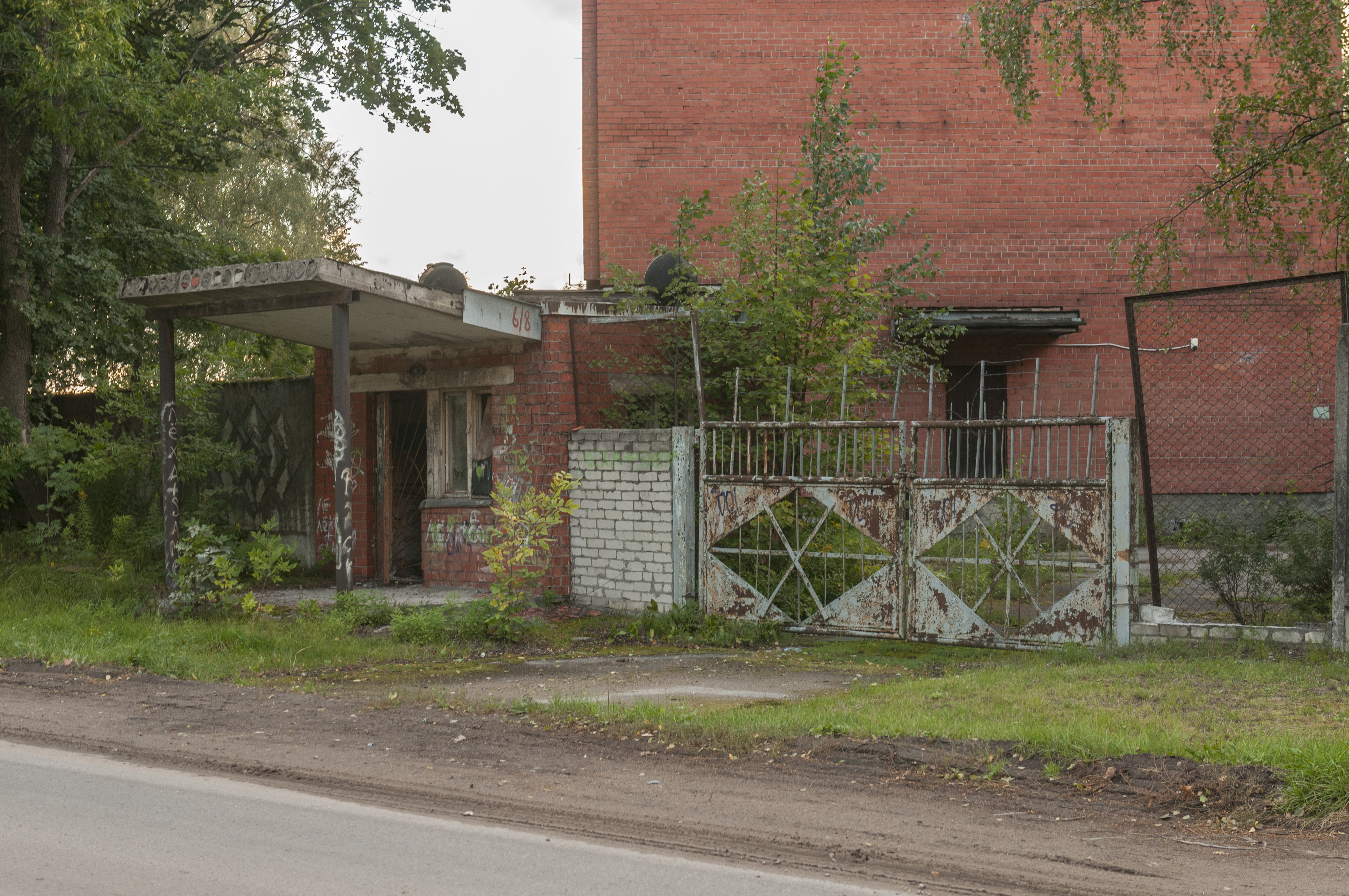 Daugavgrīva, Riga, Latvia